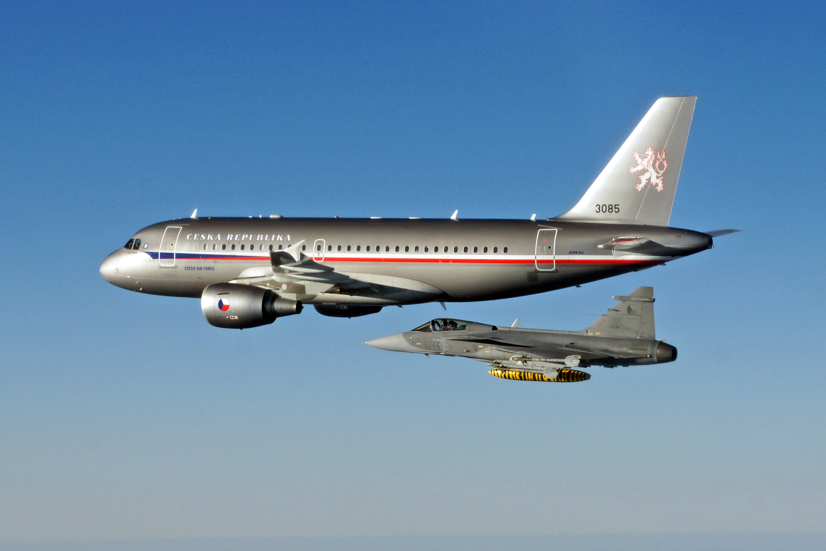 Saab JAS-39 Gripen of the Czech Air Force escorting the Czech President on his A319 on the way back from the Sochi Olympics